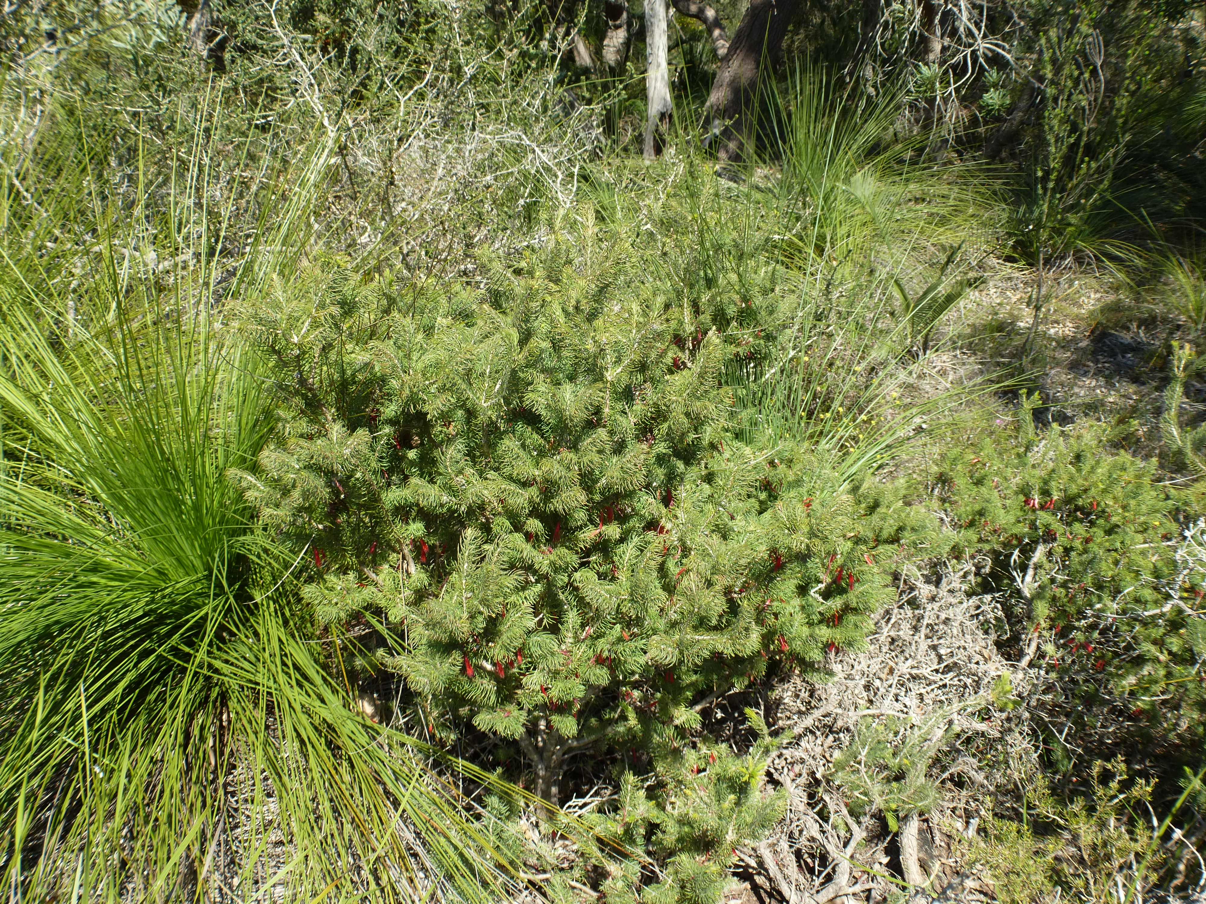 Calothamnus sanguineus growing in Lesueur National Park.